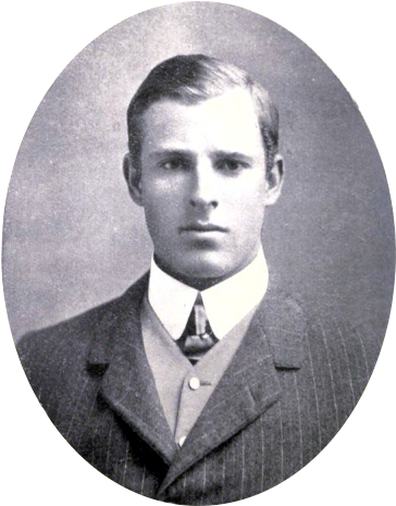 Anthony Wilding, at age 22, captain of the Cambridge tennis club